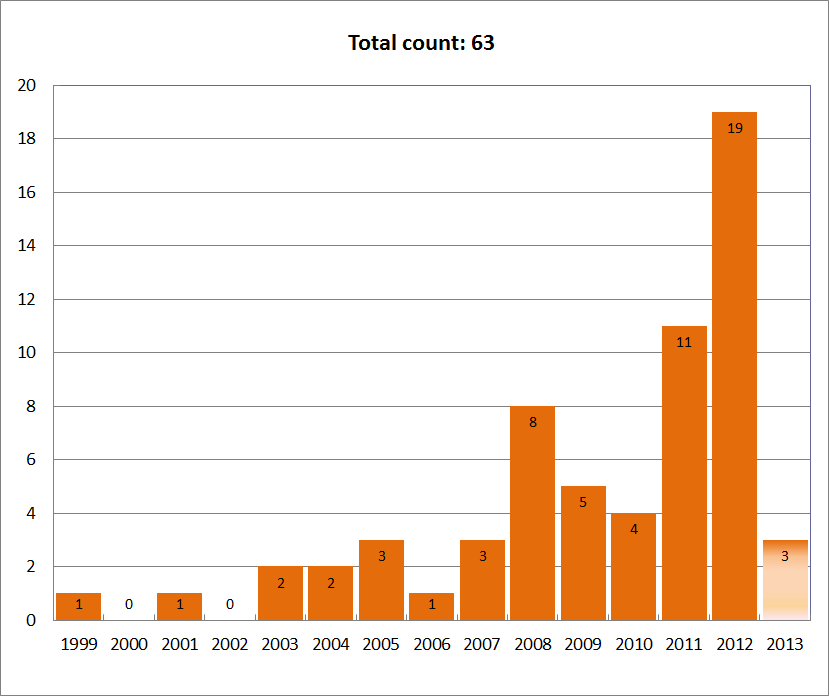 Megaprimes found by year according to the largest known primes database (